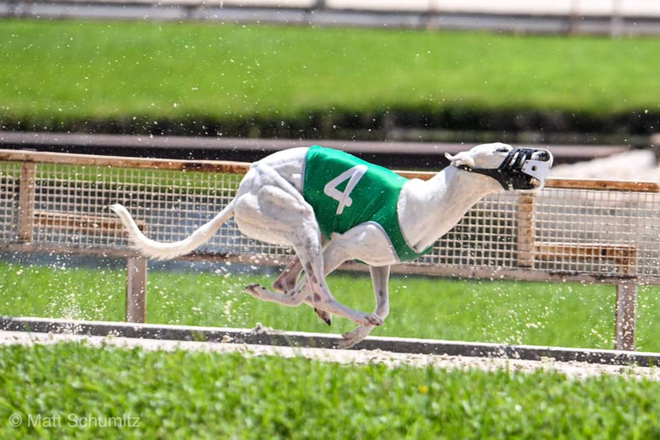 This is a racing Greyhound dog in the contracted phased of gallop where legs are off the ground and tucked under the body or contracted.